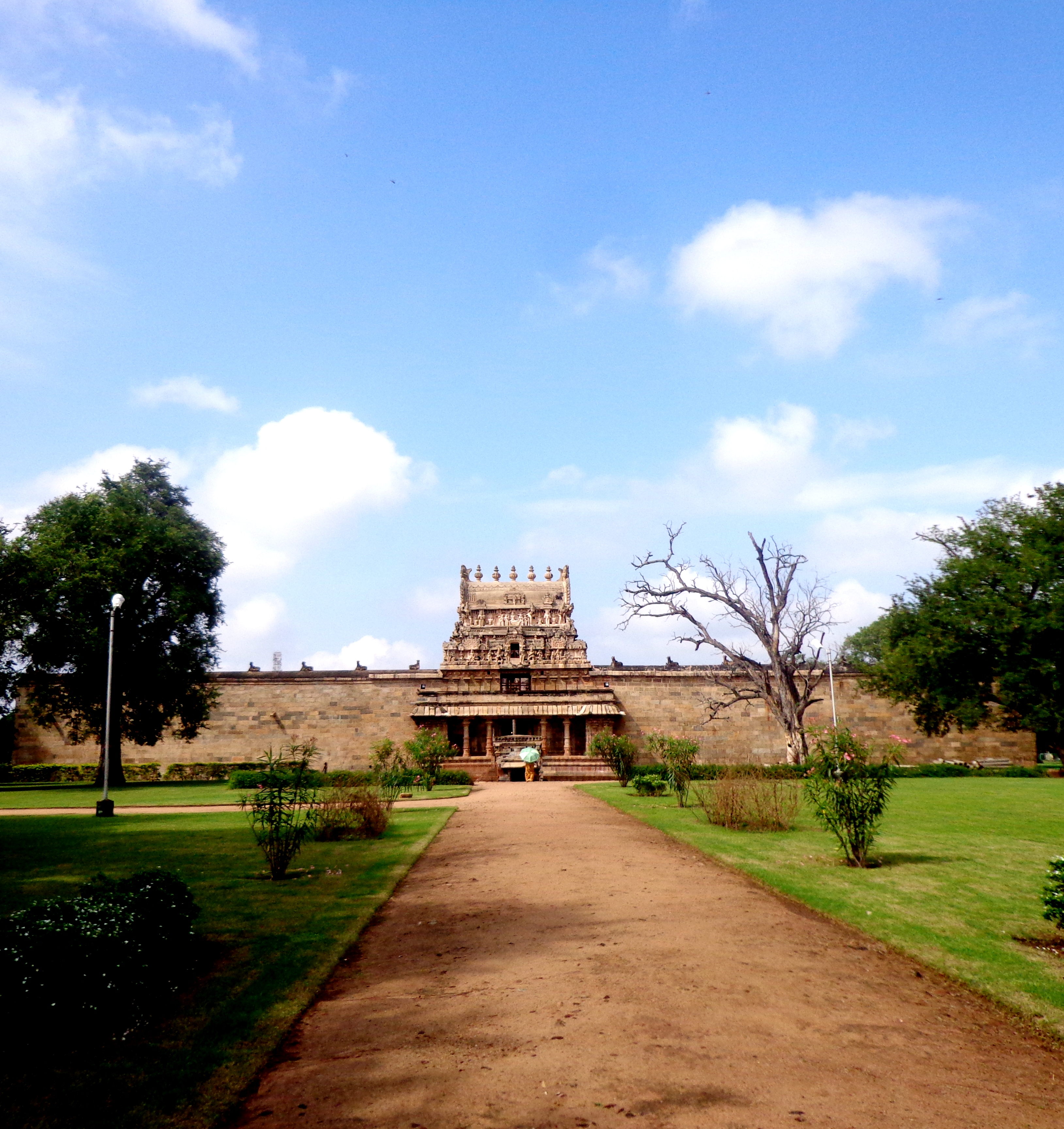 Airavatesvara Temple is the Lord Shiva temple located in Darasuram,near Kumbakonam,Thanjavur.It is a UNESCO world heritage site and it is referred to as "Great Living Chola Temples" along with Brihadeeswara Temple at Thanjavur and Gangaikondacholisvaram Temple at Gangai Konda Cholapuram.